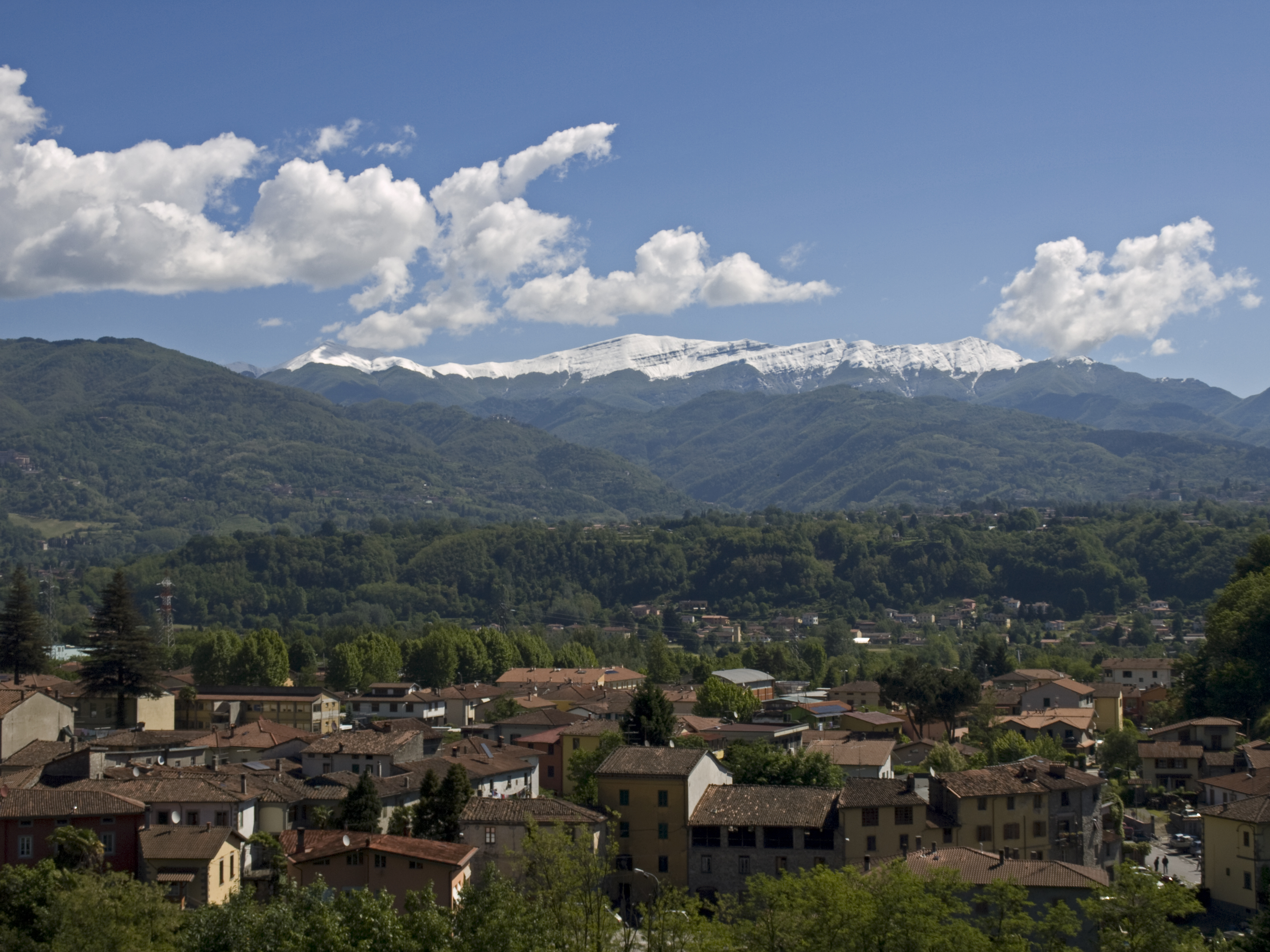 Panorama of Gallicano from the St. James Cathedral. On the background, mountains in the Parco Nazionale Appennino Tosco Emiliano